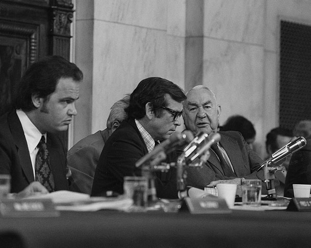 Minority counsel Fred D. Thompson (left), Senator Howard Baker (center), and Senator Sam Ervin during Senate Watergate Committee hearings in 1973.